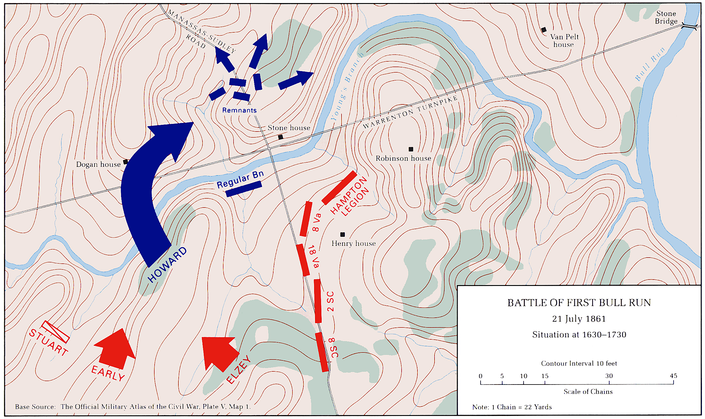 First Battle of Bull Run (July 21, 1861). Situation at 16:30-17:30 (July 21, 1861).